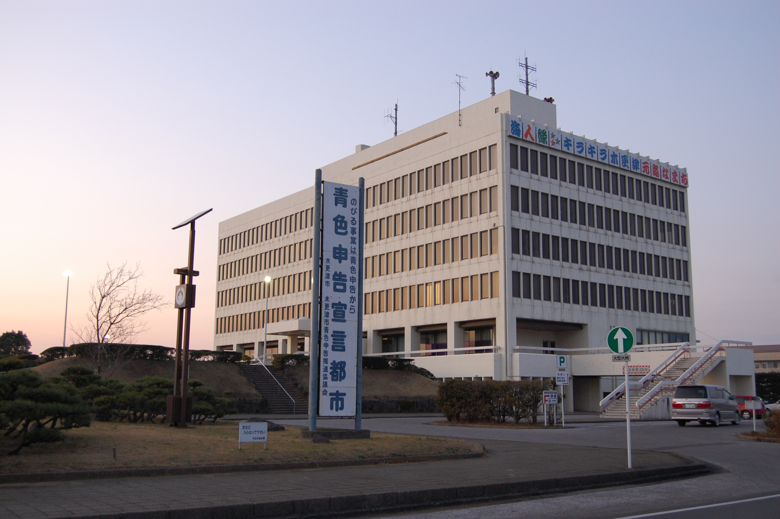 A city hall of Kisarazu, Chiba, Japan